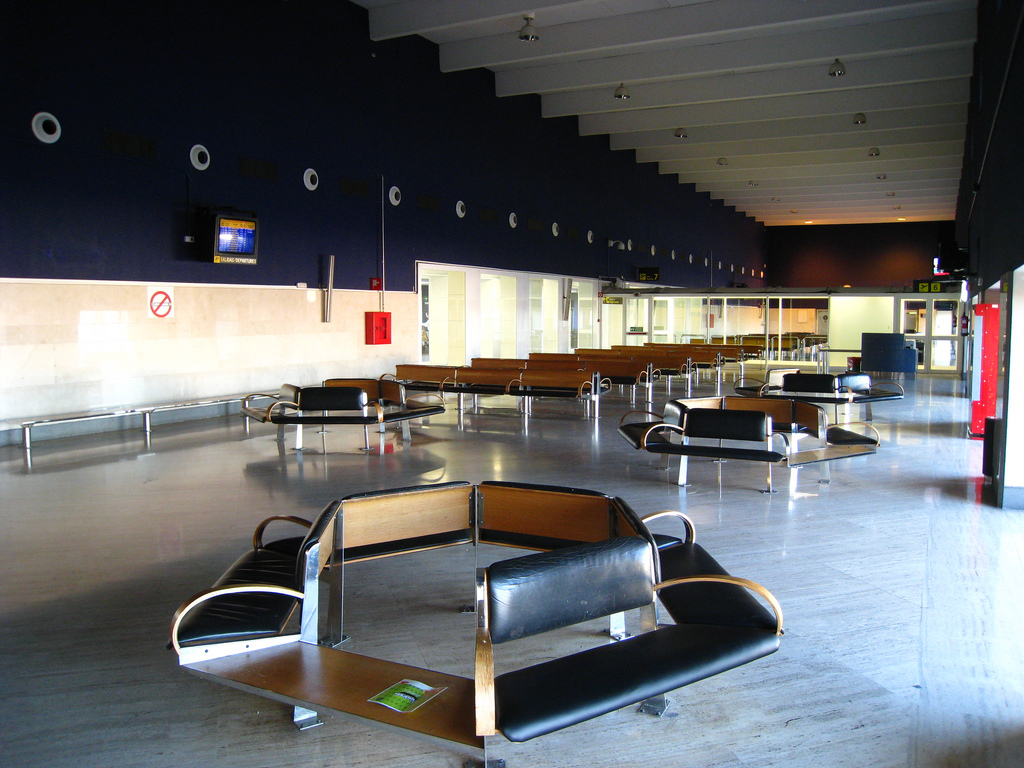 Boarding hall at San Pablo Airport (Seville Airport)